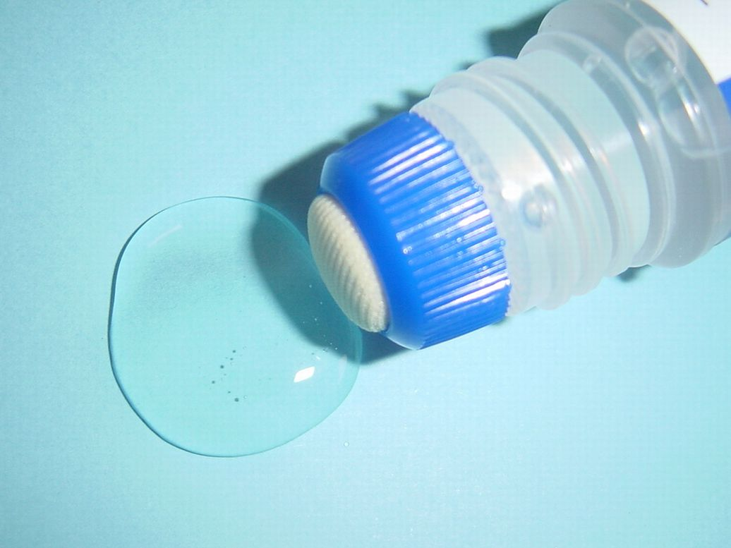 Adhesives,Polyvinylalcohol adhesives,PVAL